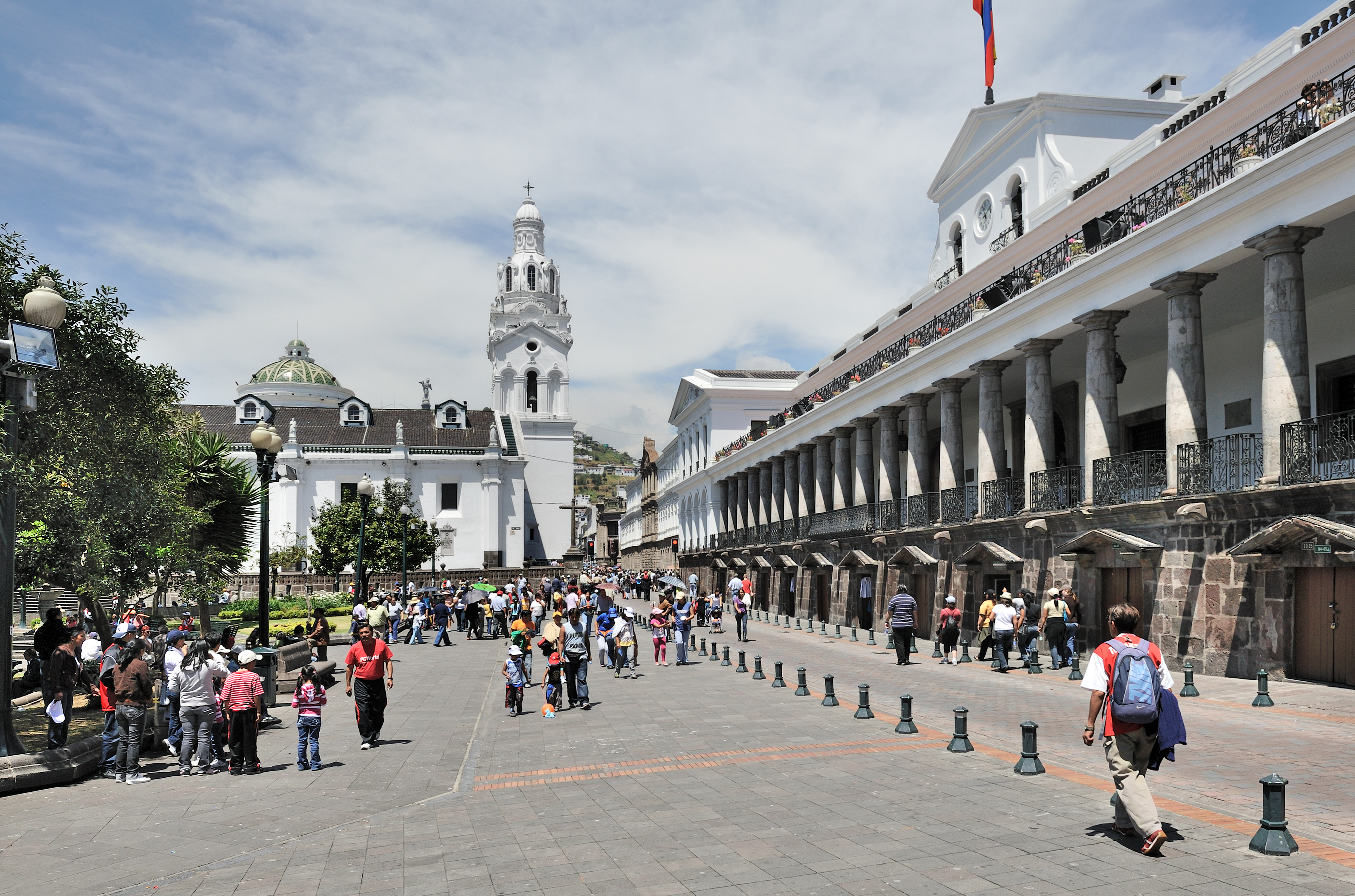 Ecuador, Quito: Independence Place (Plaza de la Independencia), with the Carondelet Palace (seat of the government and official reesidence of the president of the Republic of Ecuador) and the Cathedral of Quito in the Historic Centre of the city.